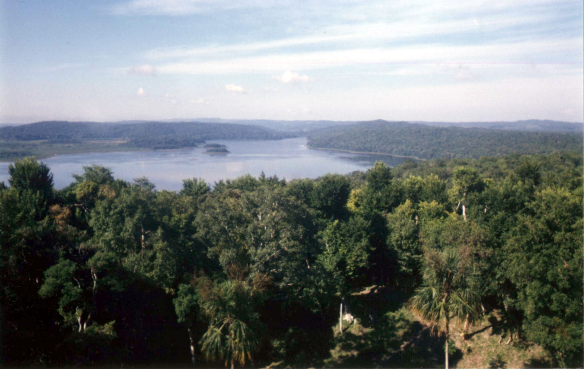 View of Laguna Yaxhá, taken from the Maya ruins of Yaxhá. Petén, Guatemala.